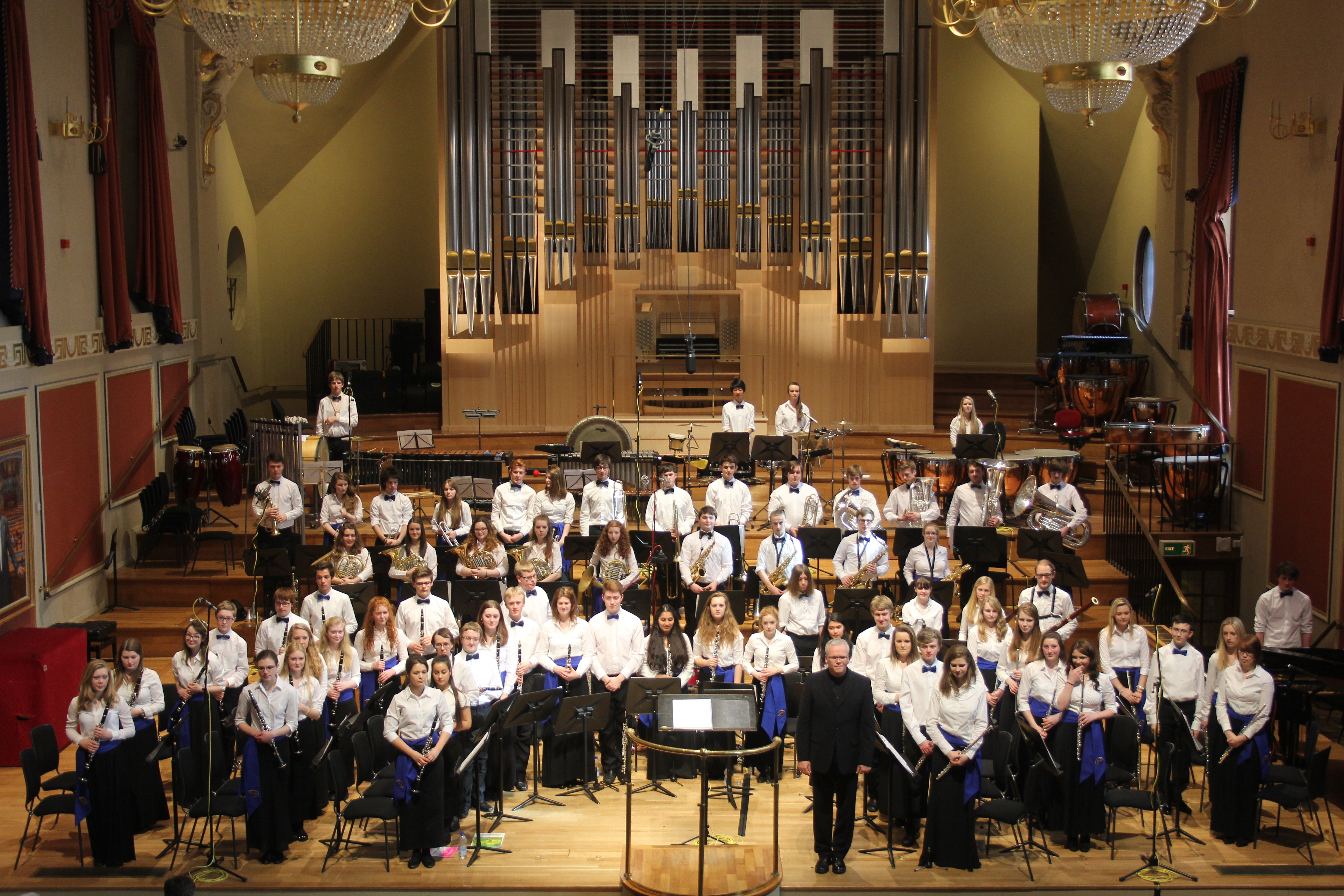 NYWO RAM Duke's Hall Easter Concert 2014 - Conductor Tijmen Botma Other information This one of a batch released by the NYWO board of Trustees for this project